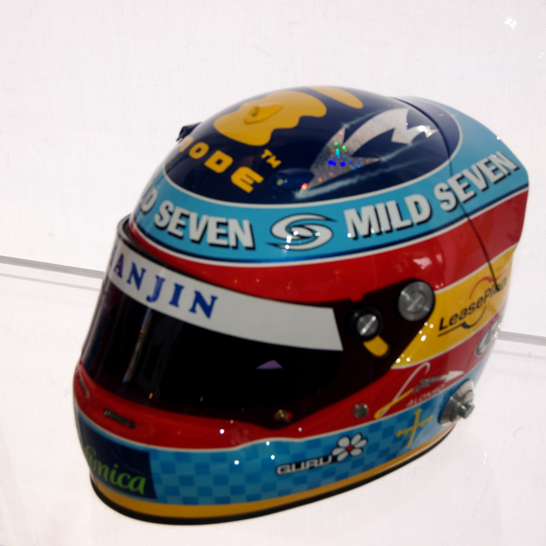 Fernando Alonso's helmet when he was racing for Renault.